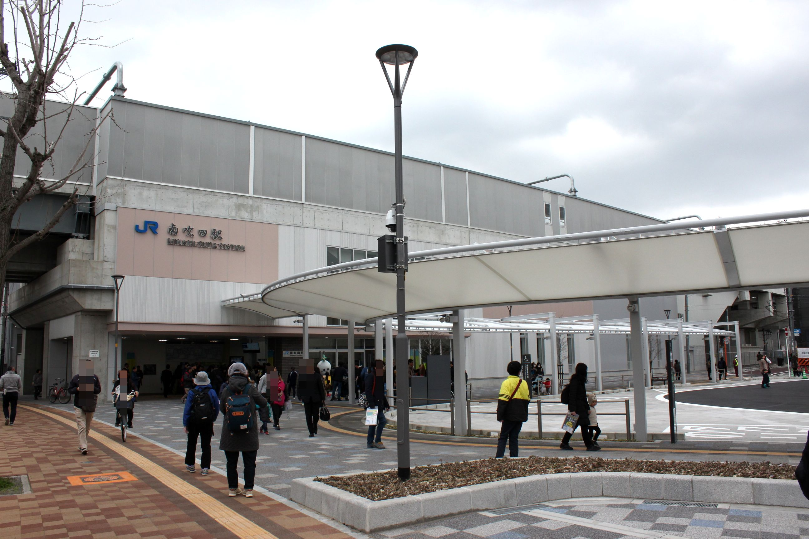 南吹田駅 Canon EOS Kiss X5